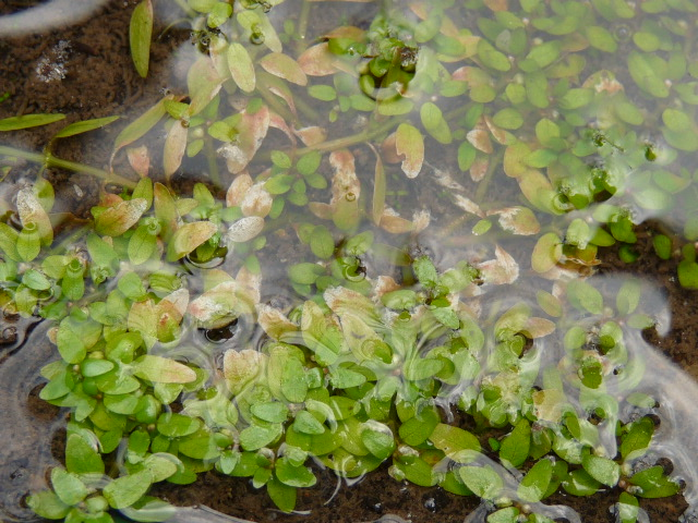 Elatine triandra